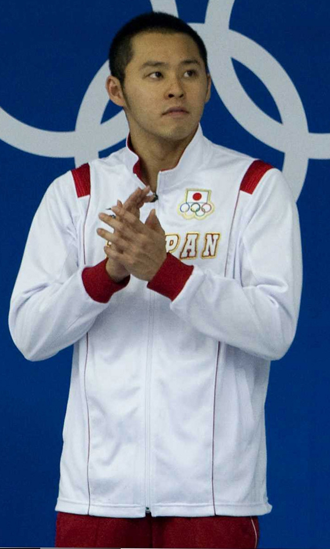 Japanese swimmer Kosuke Kitajima winner of the 200m breaststoke, on the podium at the Watercube, Beijing, August 14th 2008.